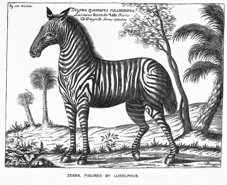 Illustration of Zebra by Ludolphus